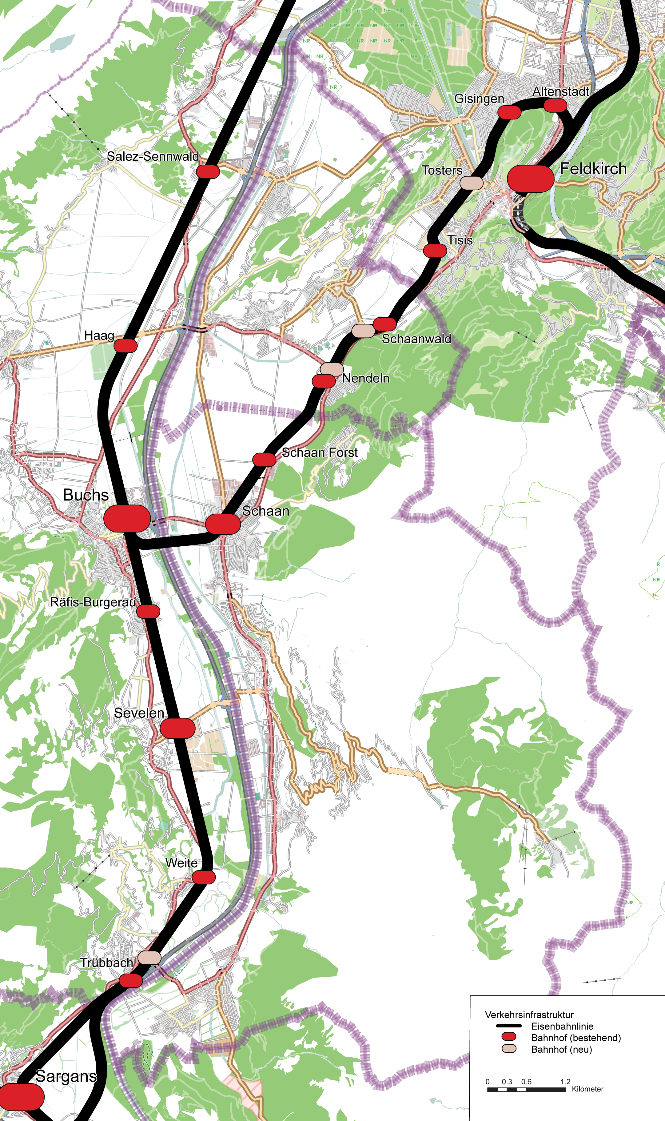 Map for Railwayproject S-Bahn . (Liechtenstein, Austria, Switzerland)